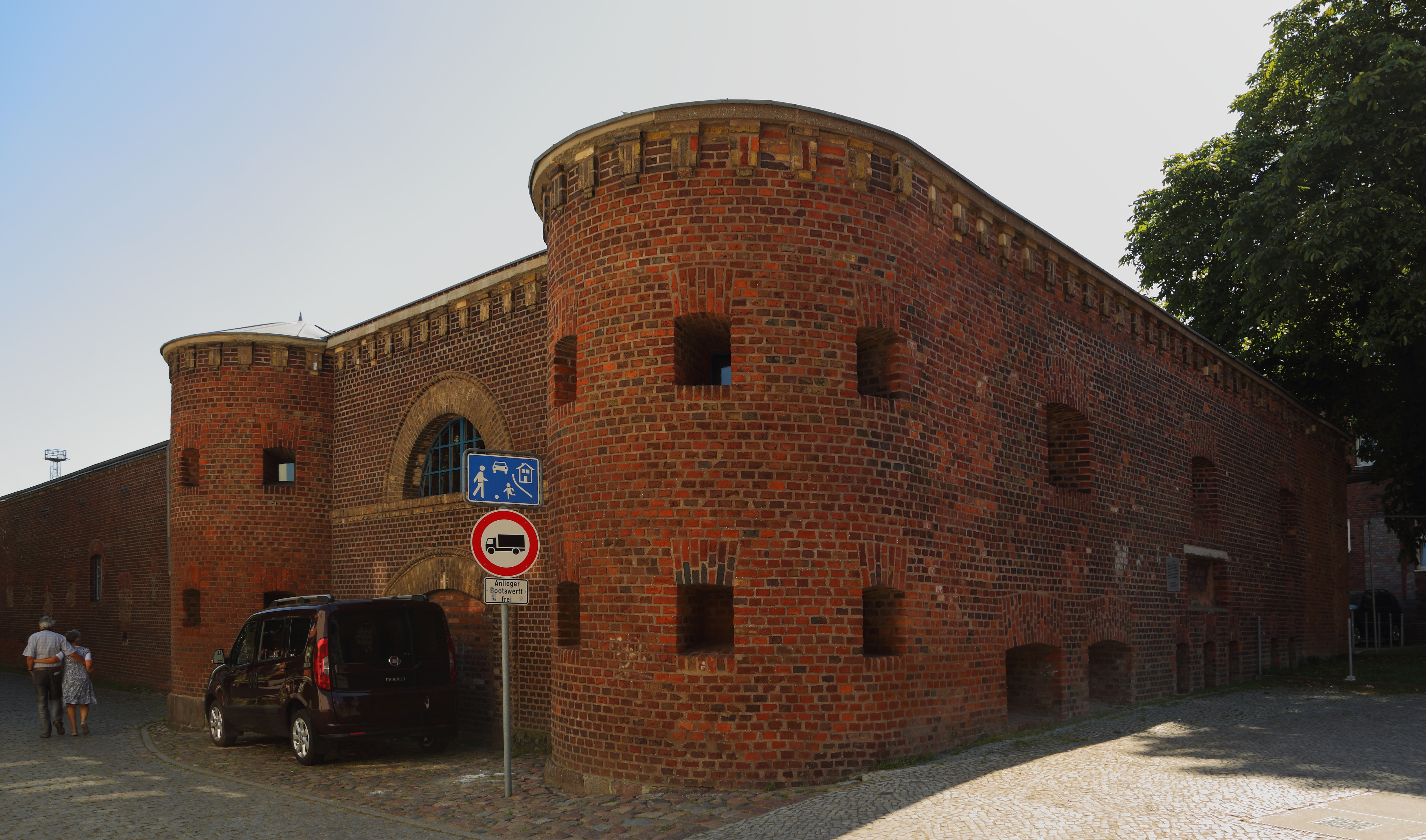 The Frankenkronwerk in Stralsund, Landkreis Vorpommern-Rügen, Mecklenburg-Vorpommern, Germany.